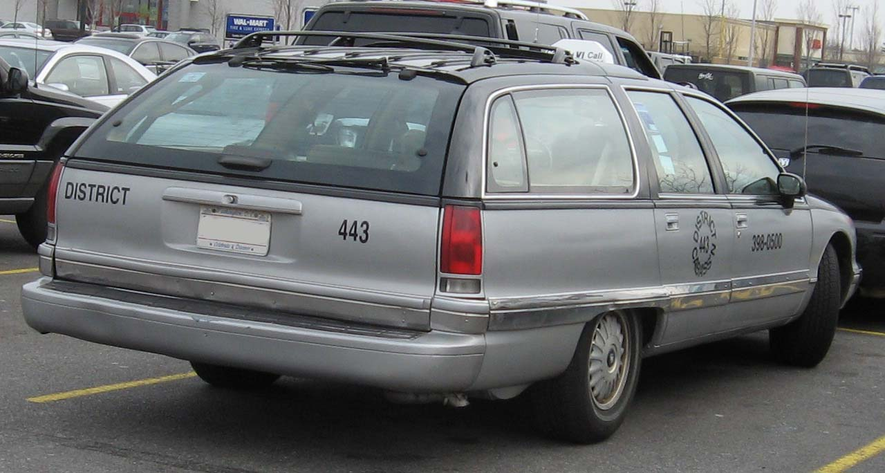 1991-1996 Buick Roadmaster photographed in USA.